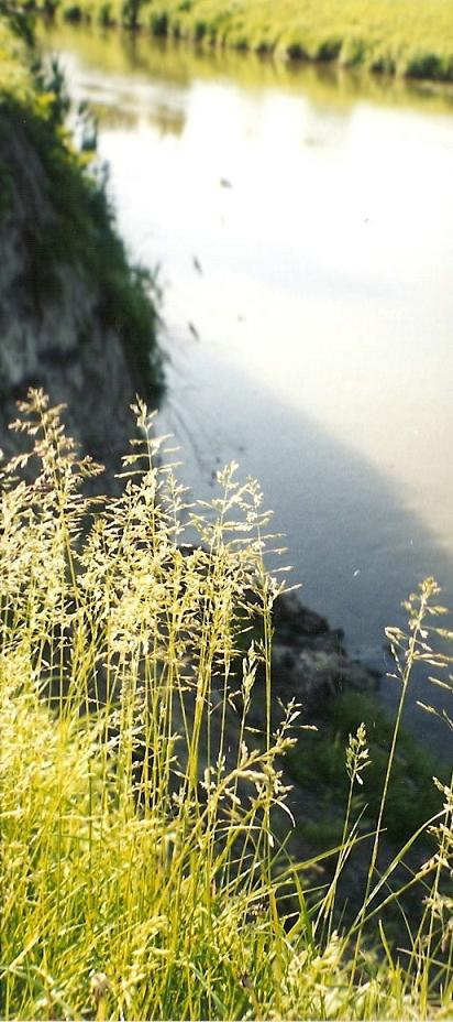 Horyn River